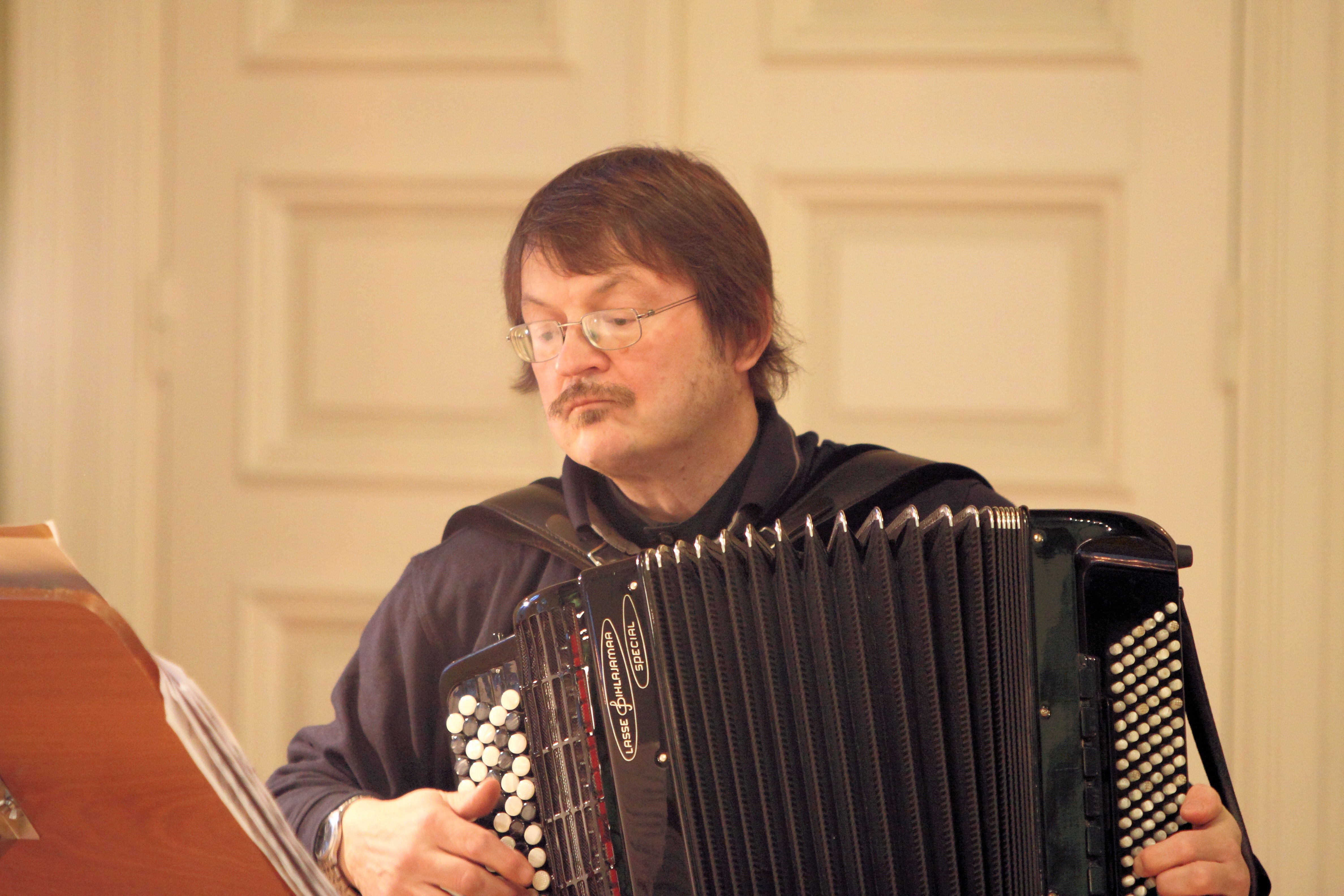 Matti Rantanen finnish accordion player